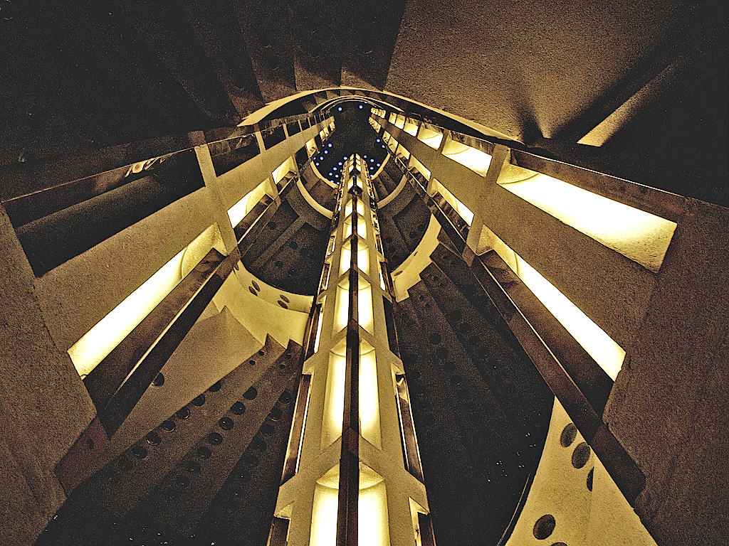 Haus Atlantis, Bremen, stairway